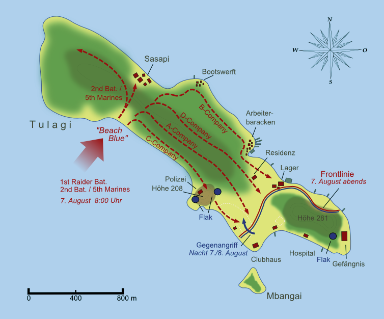 Map in German language depicting the allied landings on Tulagi (7 / 8 August 1942) during the Pacific War. It is based mainly on aerial reconnaissance photos from May/June 1942 as well as on a sketch from the book: Joseph H. Alexander: Edson's Raiders - The 1st Marine Raider Battalion in World War II, Annapolis 2001, p.91.